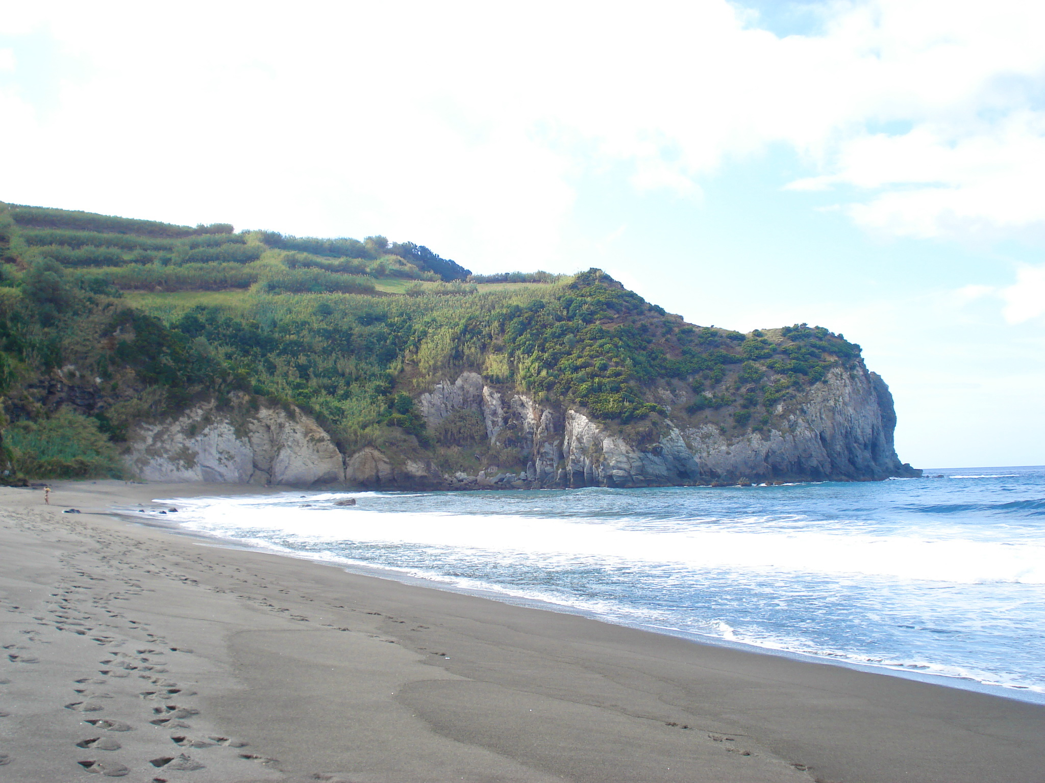 One of the few light sand beaches on the island of São Miguel, in the civil parish of Porto Formoso, municipality of Ribeira Grande (Azores), Portugal